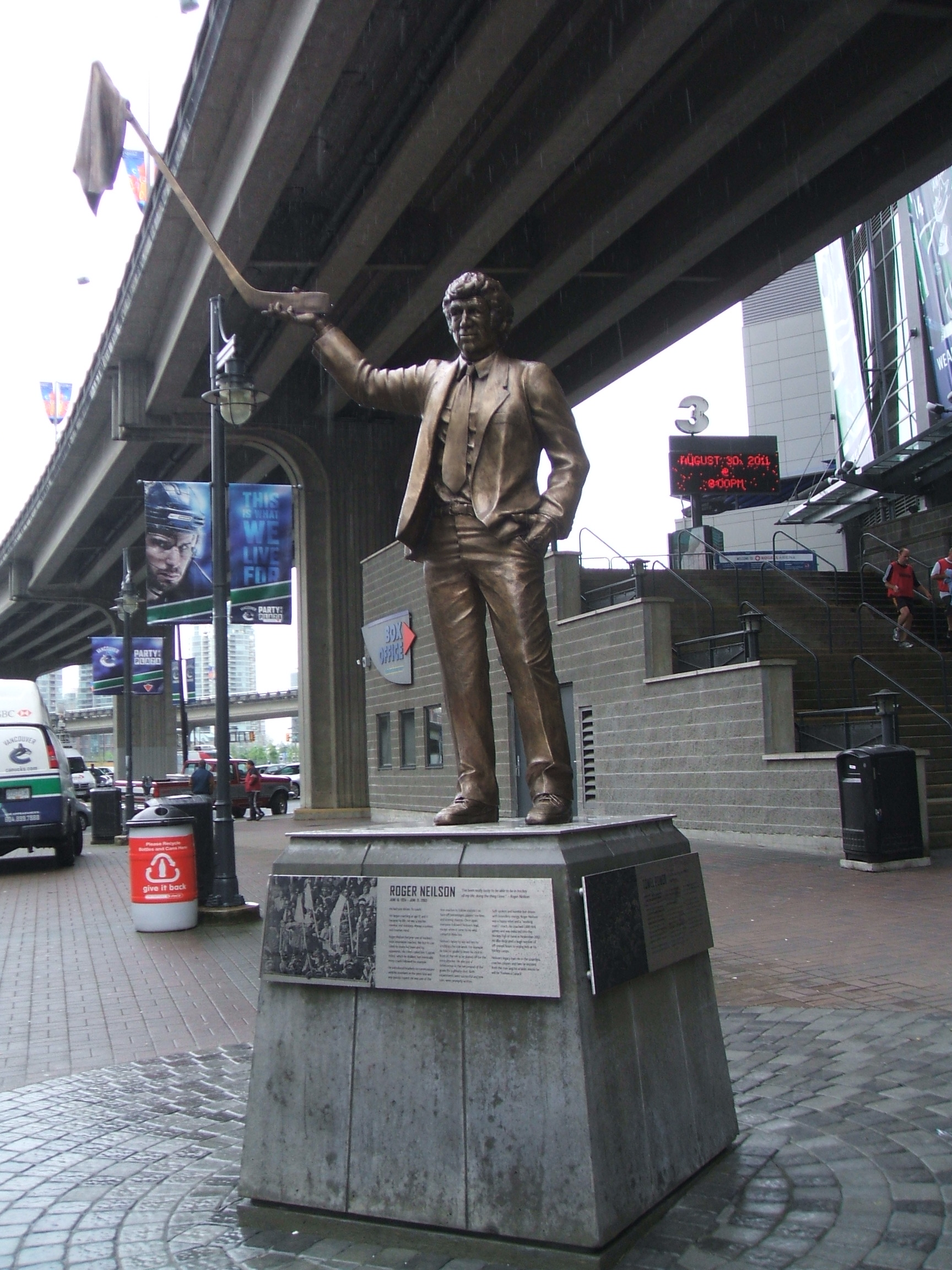 Roger Neilson statue taken outside Rogers Arena in Vancouver.